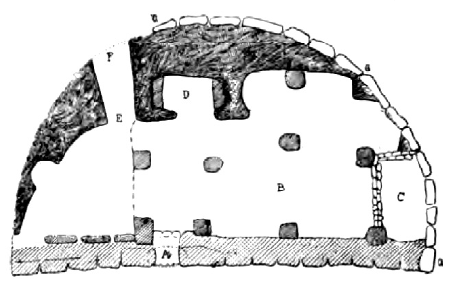 Ground plan of the Galliner de Madona hypostyle hall, Es Migjorn Gran, Minorca.